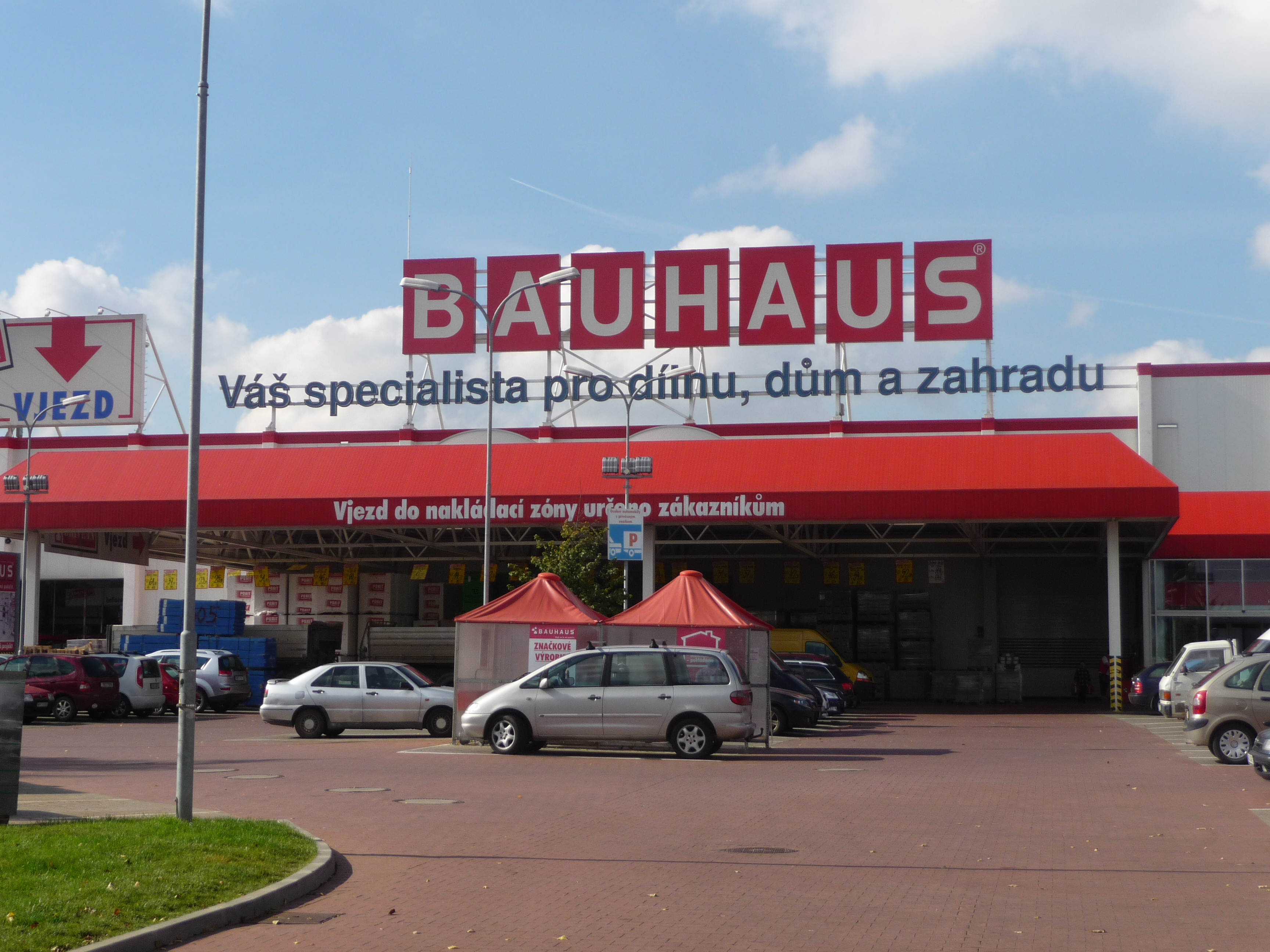 Bauhaus, Heršpická, Brno